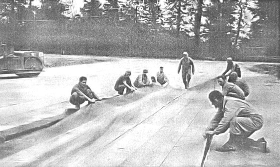 Photo of the Advanced Landing Ground A-41 (Dreux, France) runway being constructed by IX Engineerng Command, July 1944